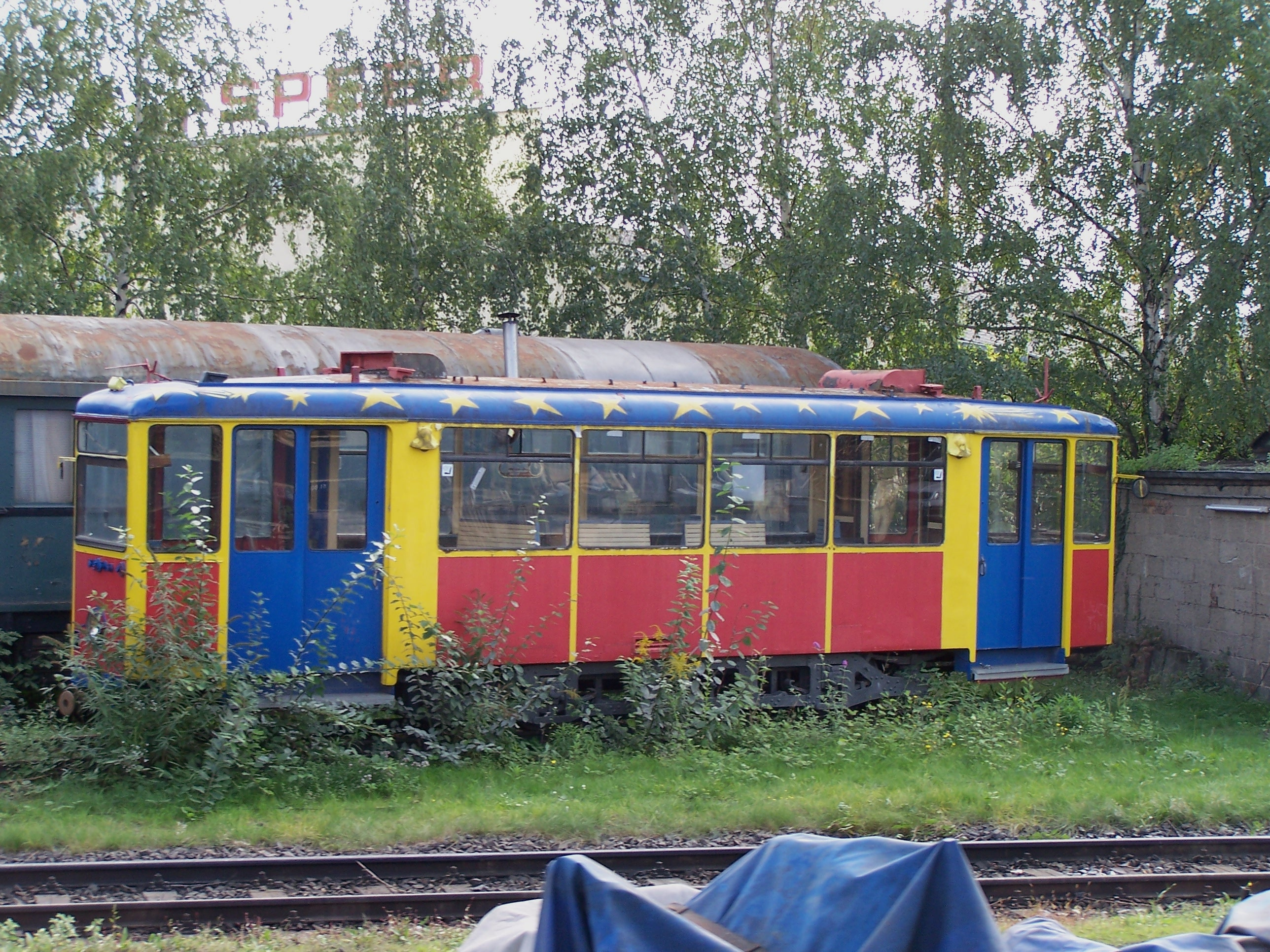 K-type tram 476 of Frankfurt on Main Transport Museum on the area of Historische Eisenbahn Frankfurt at Intzestraße